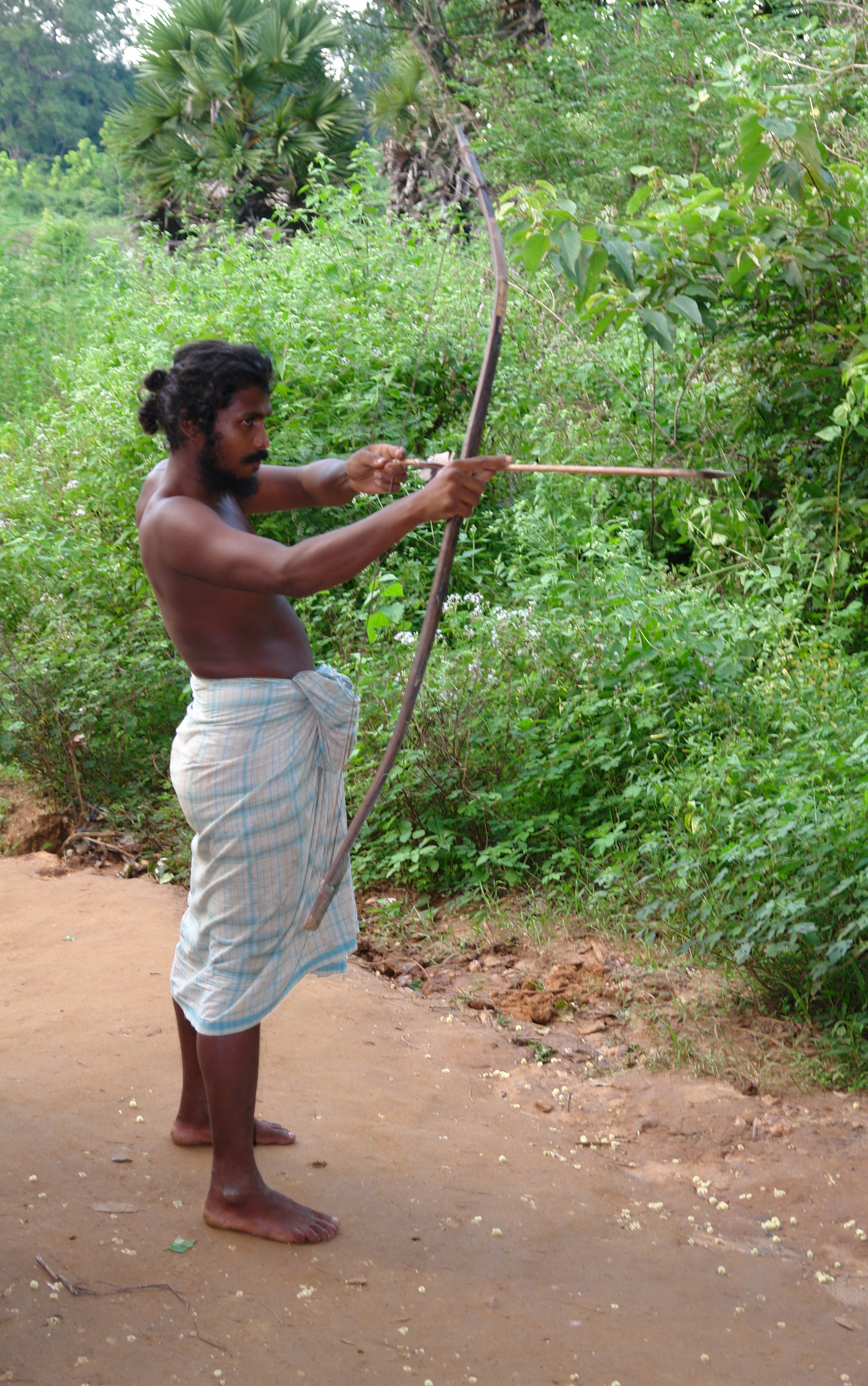 Veddah person with the bow and arrow